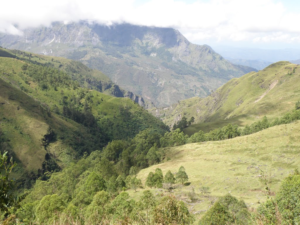 Life in the clouds. forest view along Hatu Builico valley towards Mt Cablaque in clouds, Ainaro, Timor-Leste